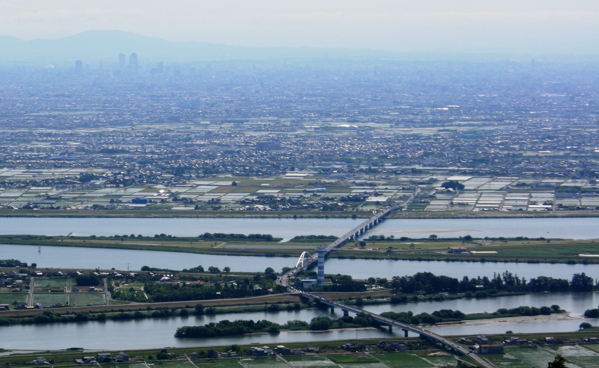 Kiso Three Rivers and Park seen from Mount Tado, in Japan.